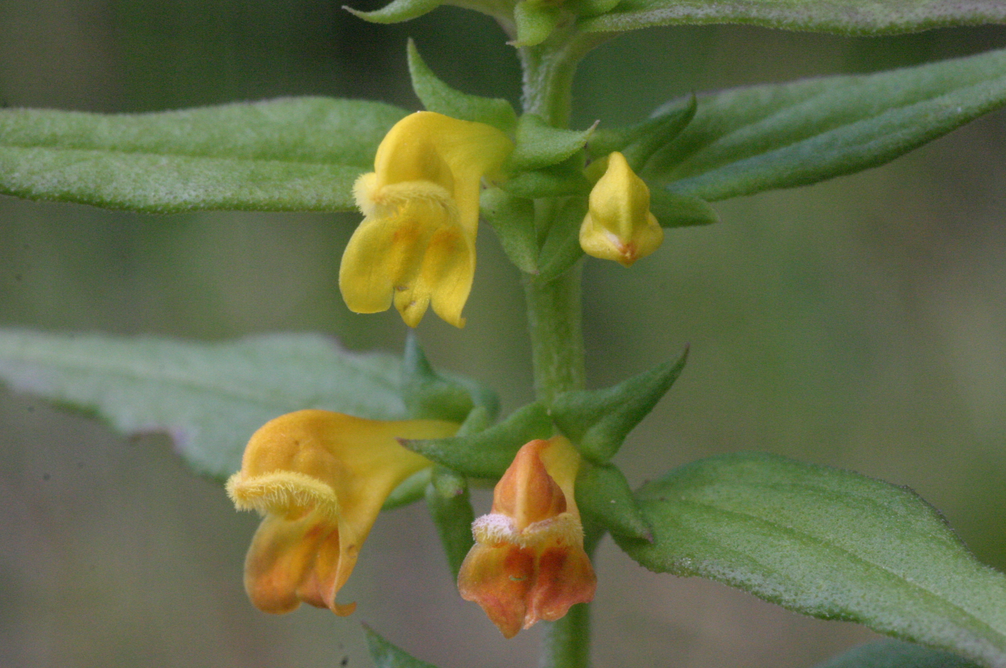 Melampyrum sylvaticum